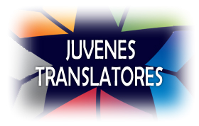 Juvenes Translatores Official Logo